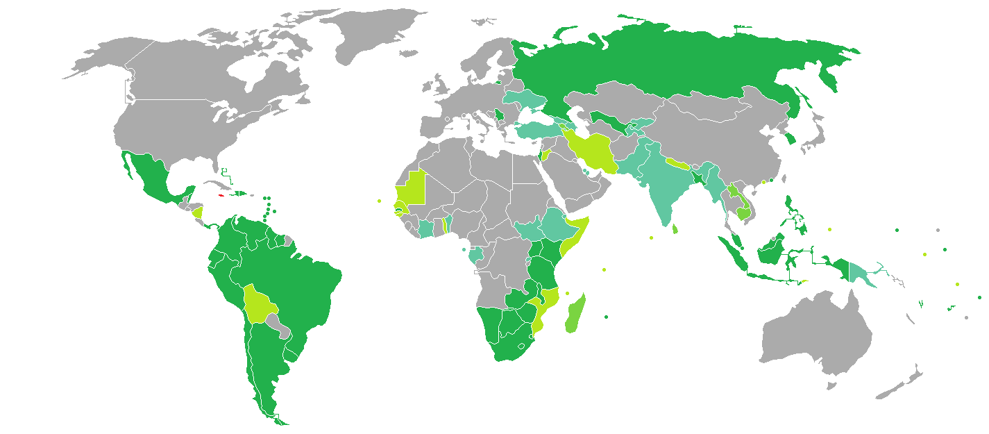 Visa requirements for Jamaican citizens Jamaica Visa free access Visa on arrival eVisa Visa available both on arrival or online Visa required